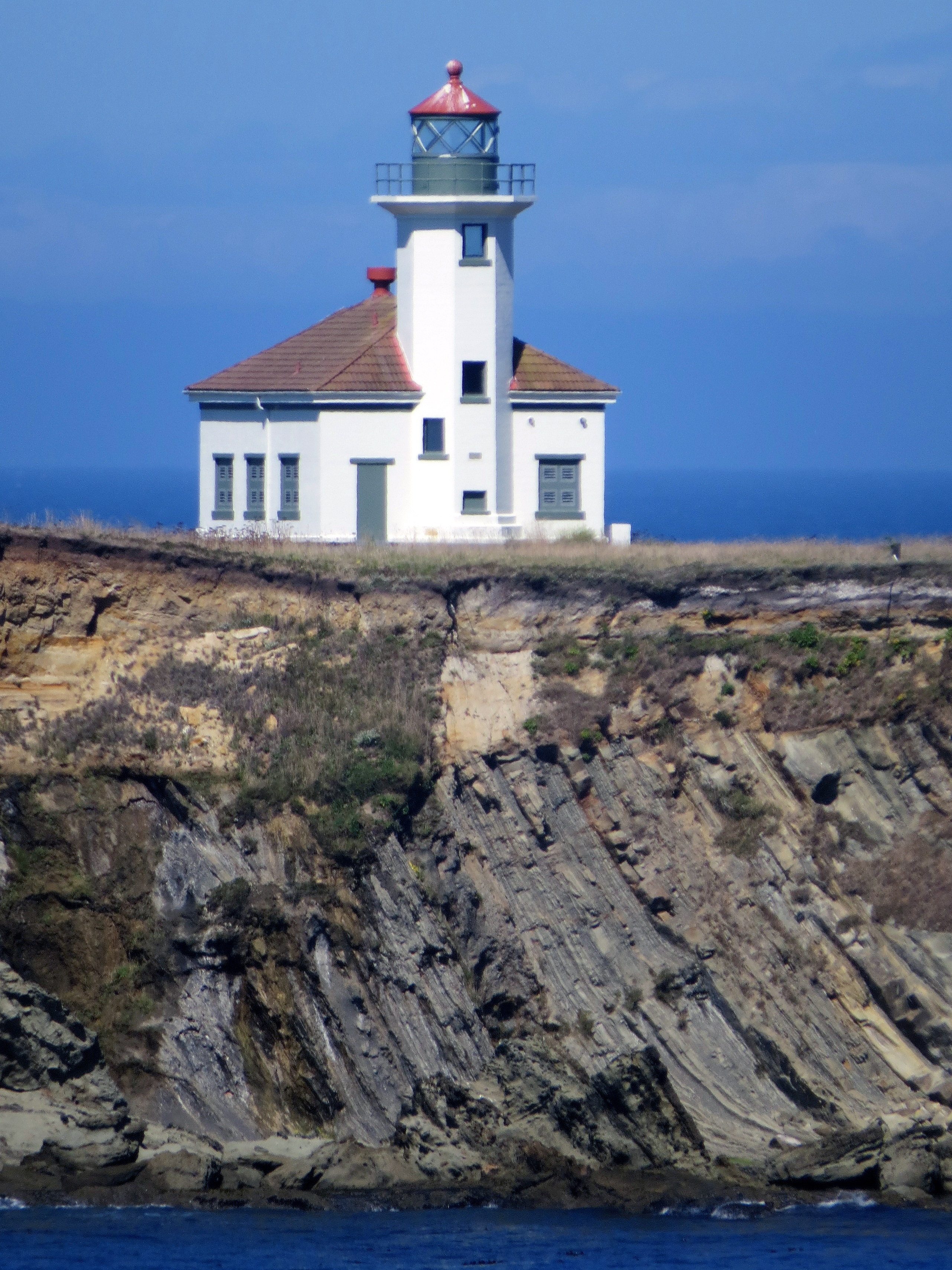 Shot from 0.84 miles with a Canon SX50HS @ 1200mm